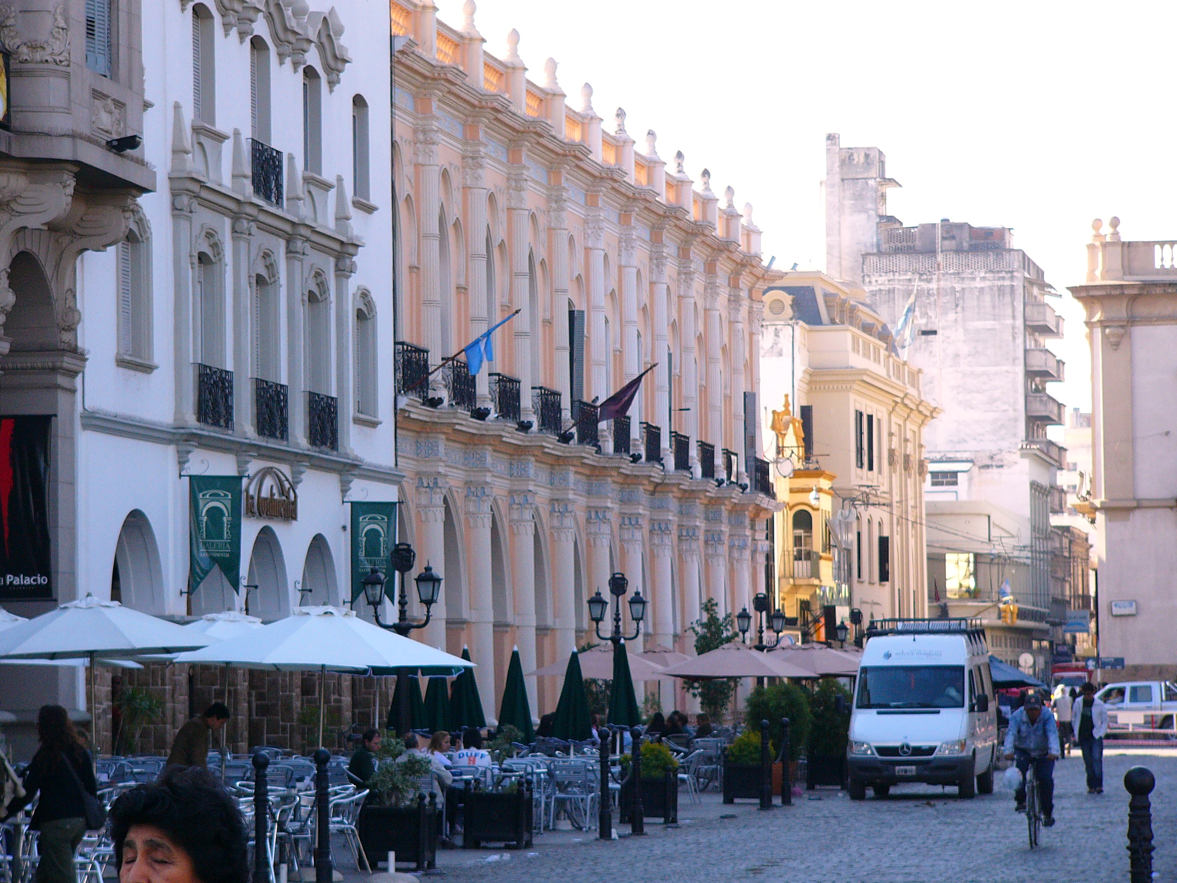 Main Square in Salta, Argentina